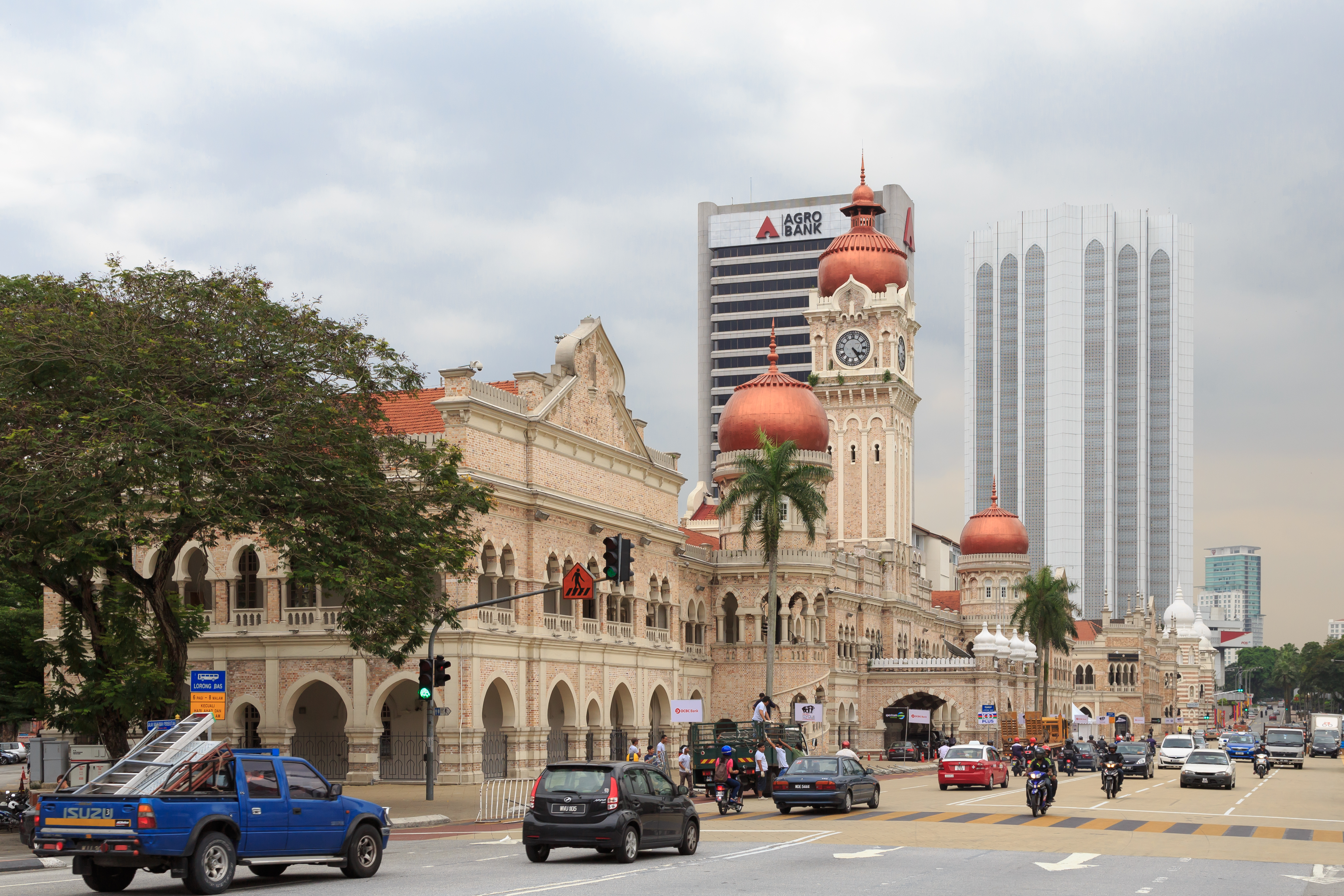 Kuala Lumpur, Malaysia: Sultan Abdul Samad Building. In the background the Agrobank Tower and the Dayabumi Tower.